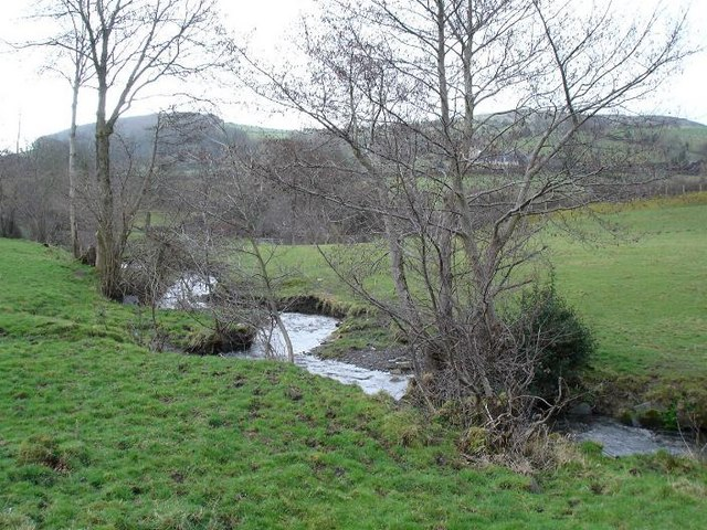 Afon Ystrad. The river running through fields near to Groes